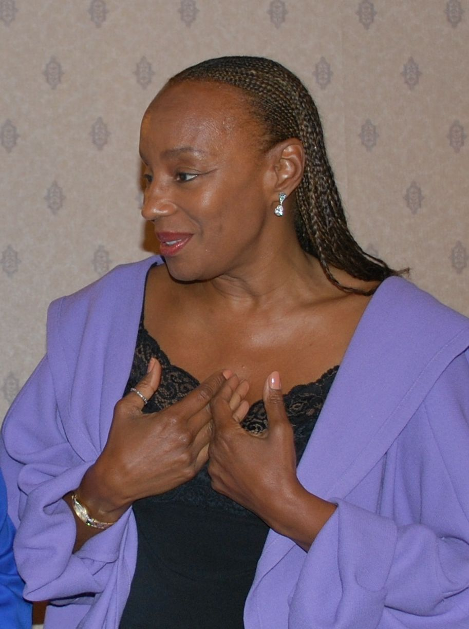 WASHINGTON (Sept. 24, 2009) Susan L. Taylor, editor of Essence Magazine at the Congressional Black Caucus meeting. (U.S. Navy photo by Lt. Cmdr. Karen E. Eifert/Released)